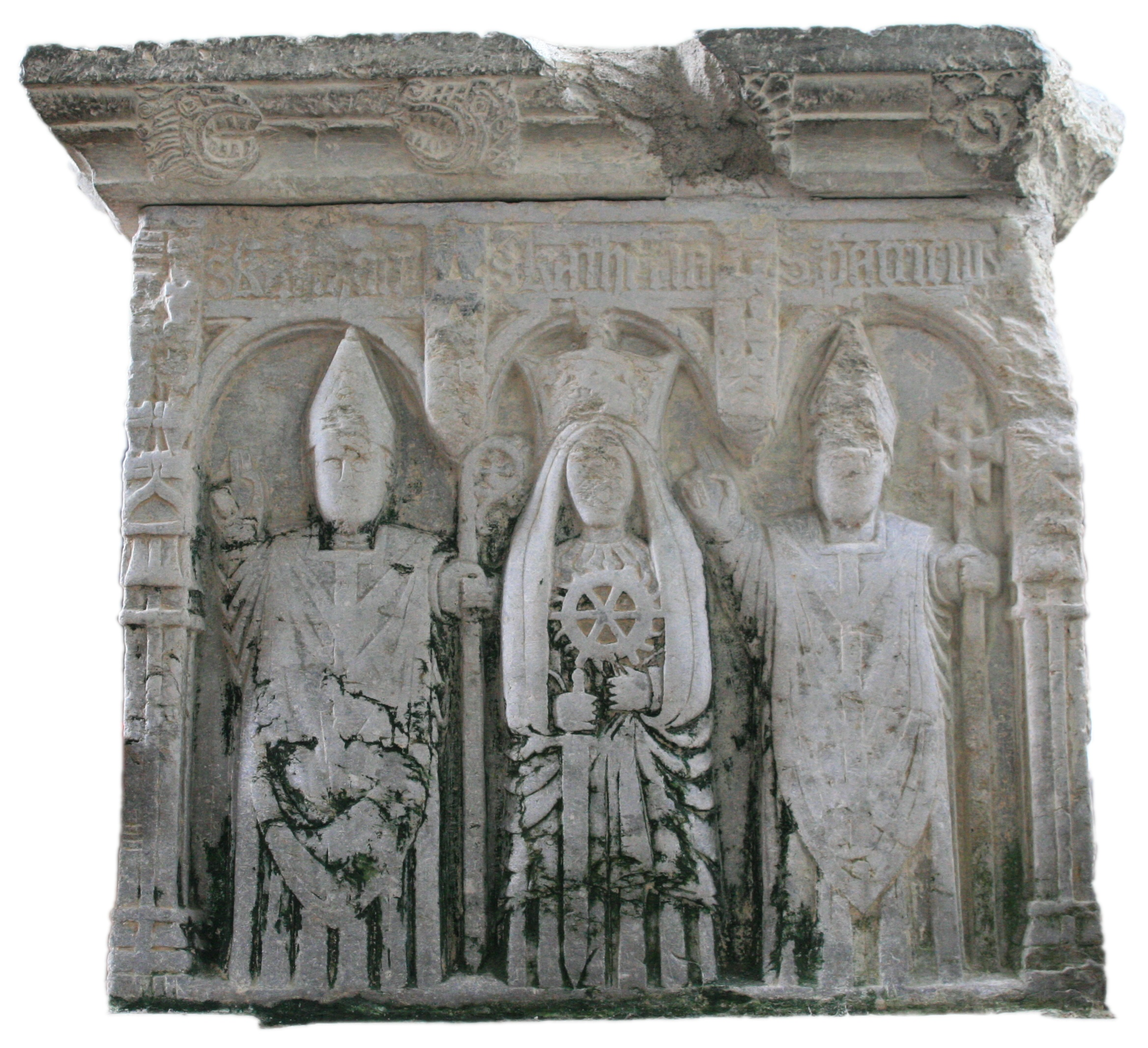 North side of the altar tomb of John and Catherine McGrathin in the nave of St. Carthage's Cathedral. The tomb was carved in 1543. The carved saints from left to right are St. Carthage, St. Catherine, and St. Patrick.